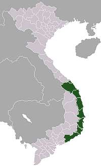 Nam Trung Bo